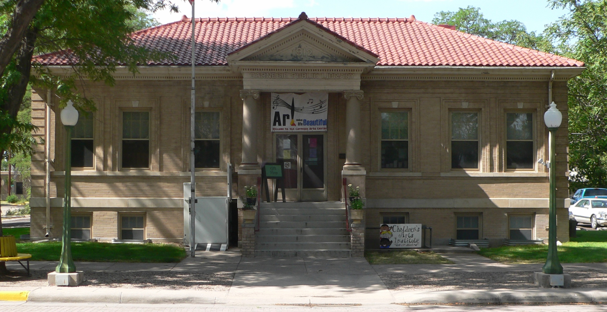 Former Carnegie Library, now Carnegie Arts Center, located at 120 W. 12th in Goodland, Kansas; seen from the south.